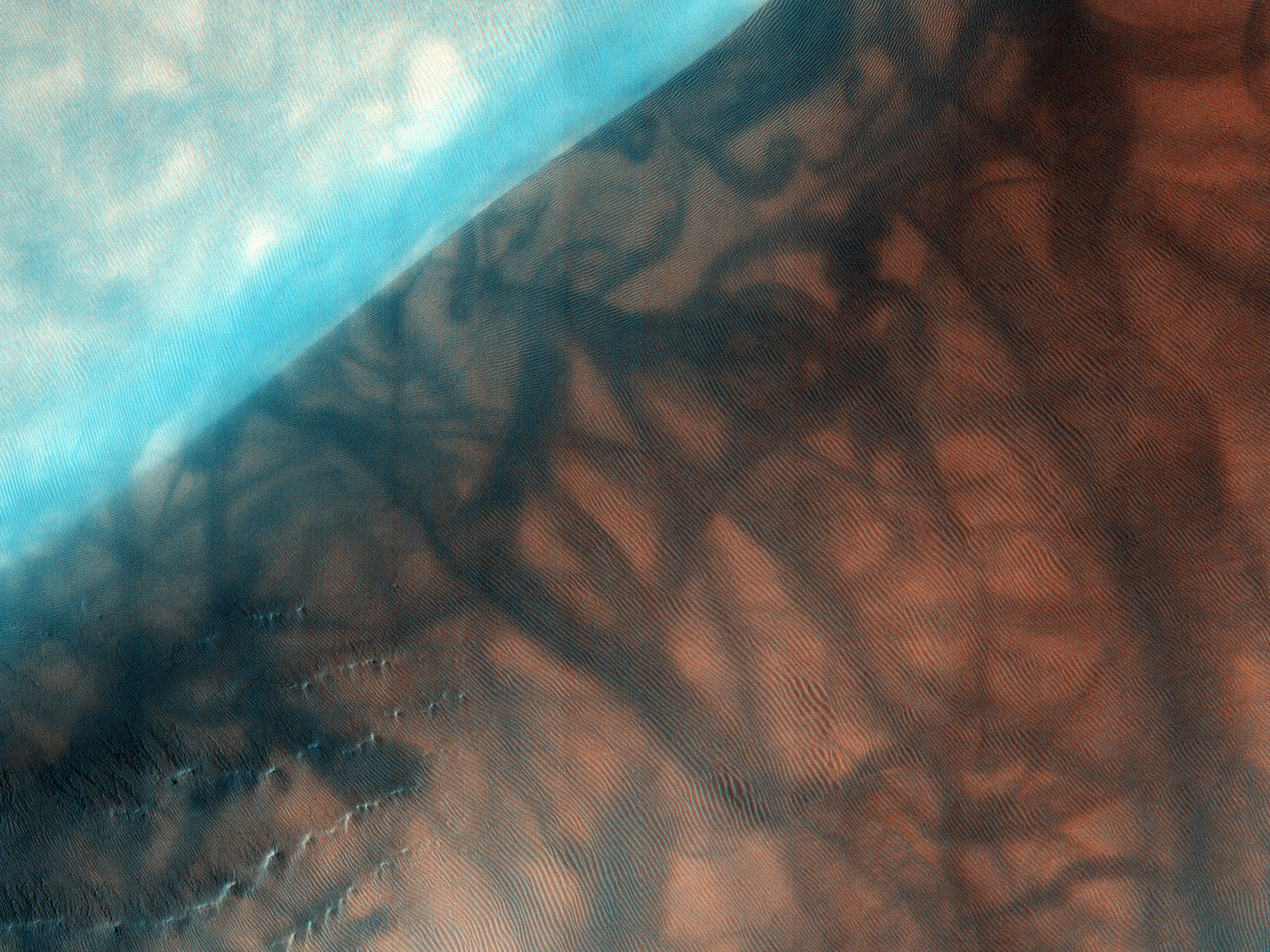 The Russell Crater dune field is covered seasonally by carbon dioxide frost, and this image shows the dune field after the frost has sublimated (evaporated directly from solid to gas). There are just a few patches left of the bright seasonal frost. Numerous dark dust devil tracks can be seen meandering across the dunes. The face of the largest dune is lined with gullies. The source of the gullies is unclear but could involve erosion by the seasonal carbon dioxide ice.